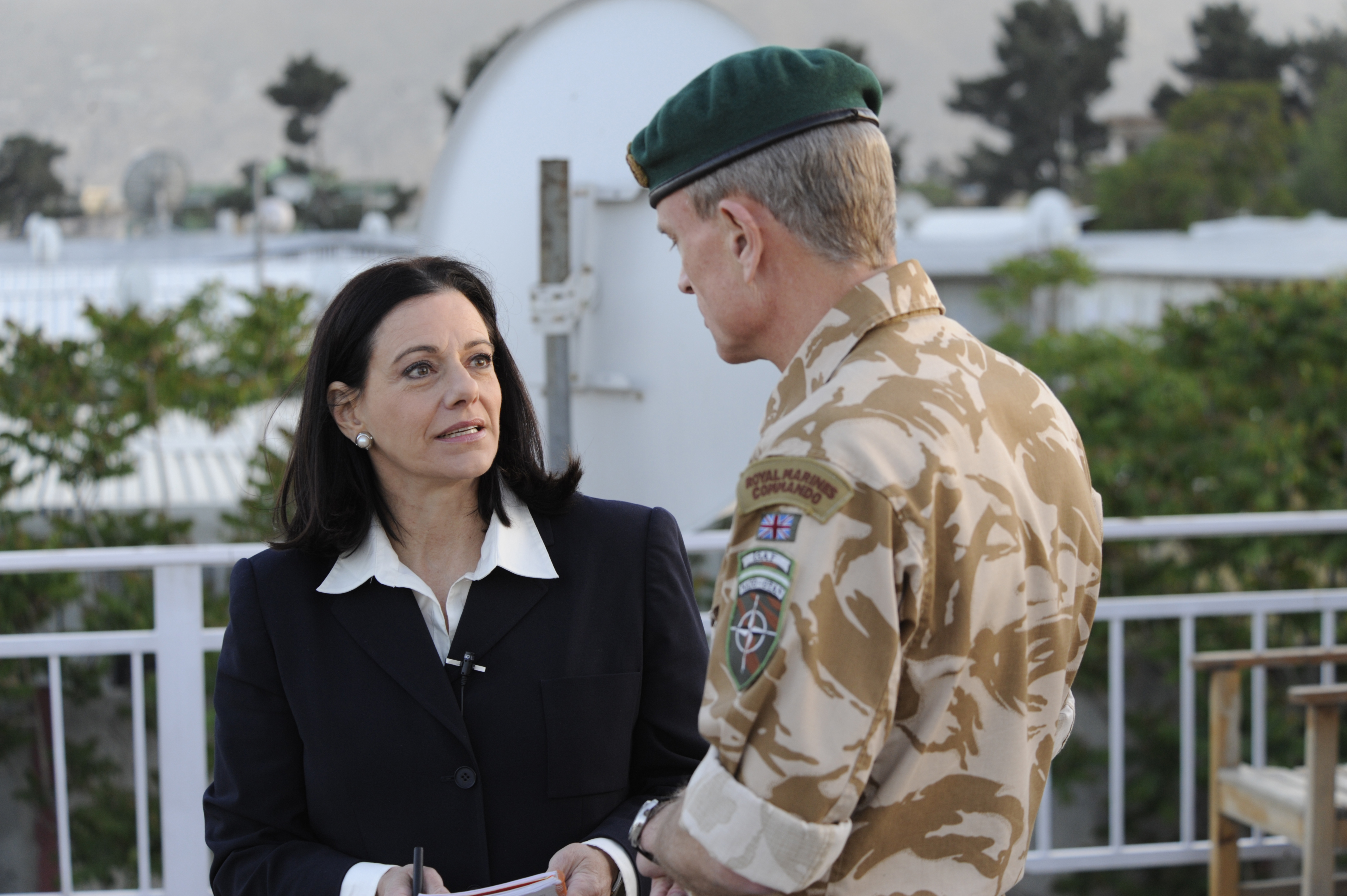 Kathleen Troia McFarland talks with the deputy commander of ISAF Lt Gen J.B Dutton (UK) before an interview. The interview took place 10 May 2009 at ISAF HQ in Kabul Afghanistan.